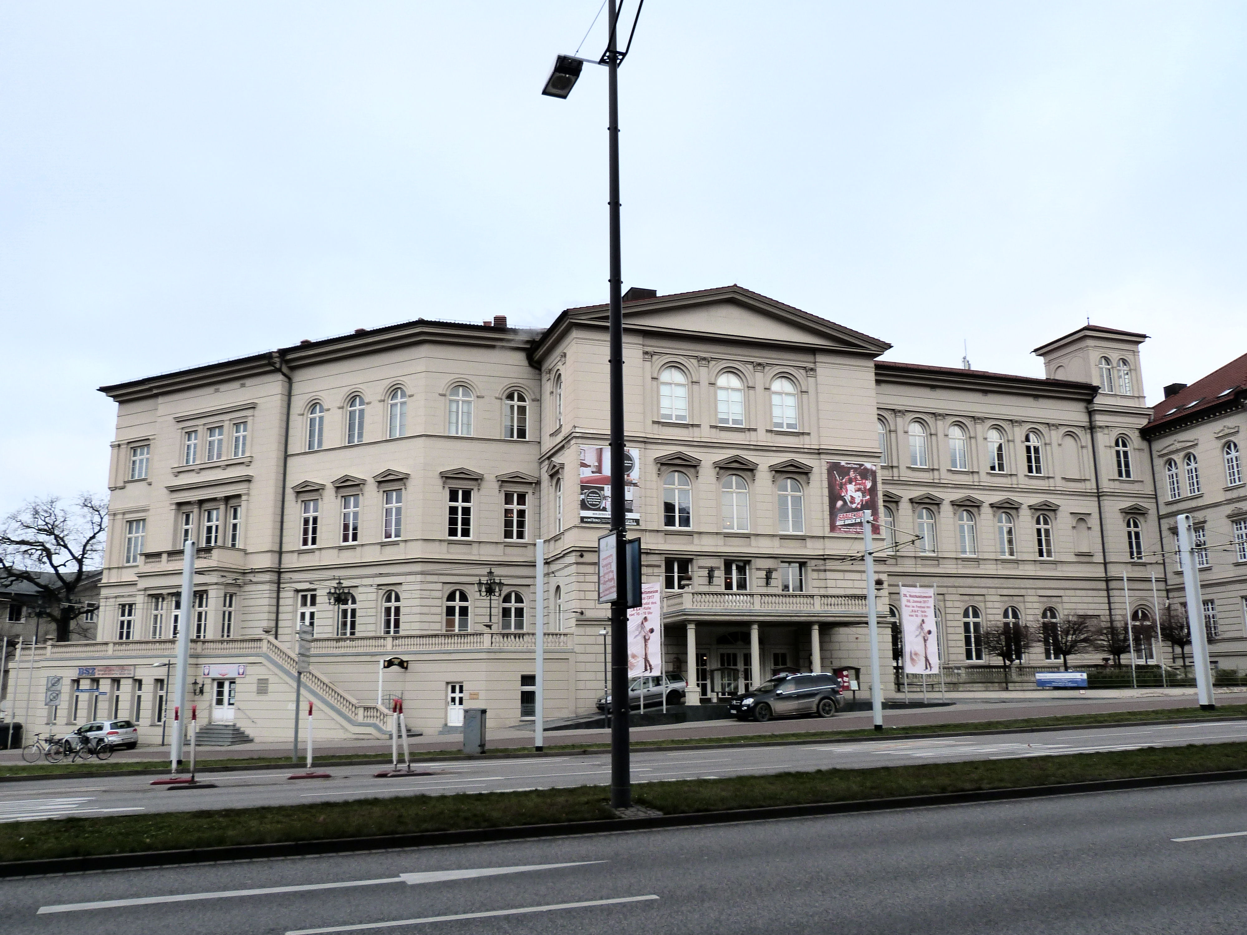 House No. 1, Franckestrasse in Halle (Saale), built in 1871, today Congress and cultural center